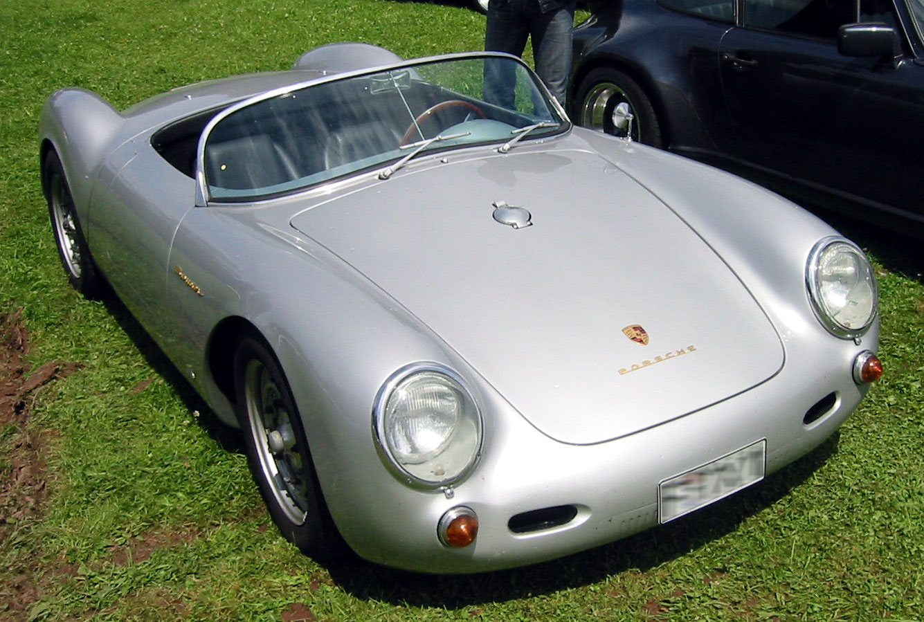 Porsche 550 replica.